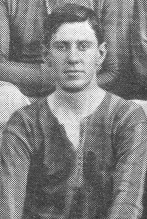 Alex Walker while with Brentfortd FC in 1904/05 - Taken from picture postcard published in 1904 by Wakefields. Wakefields no longer exist and all copyright terminated. Picture from personal archive of team photographs from the period of 1900-1915.